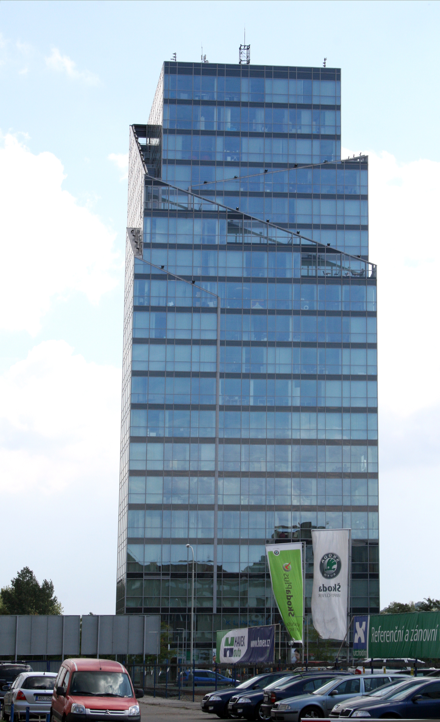 Building Lighthouse Vltava Waterfront Towers, Prague, Czech Republic